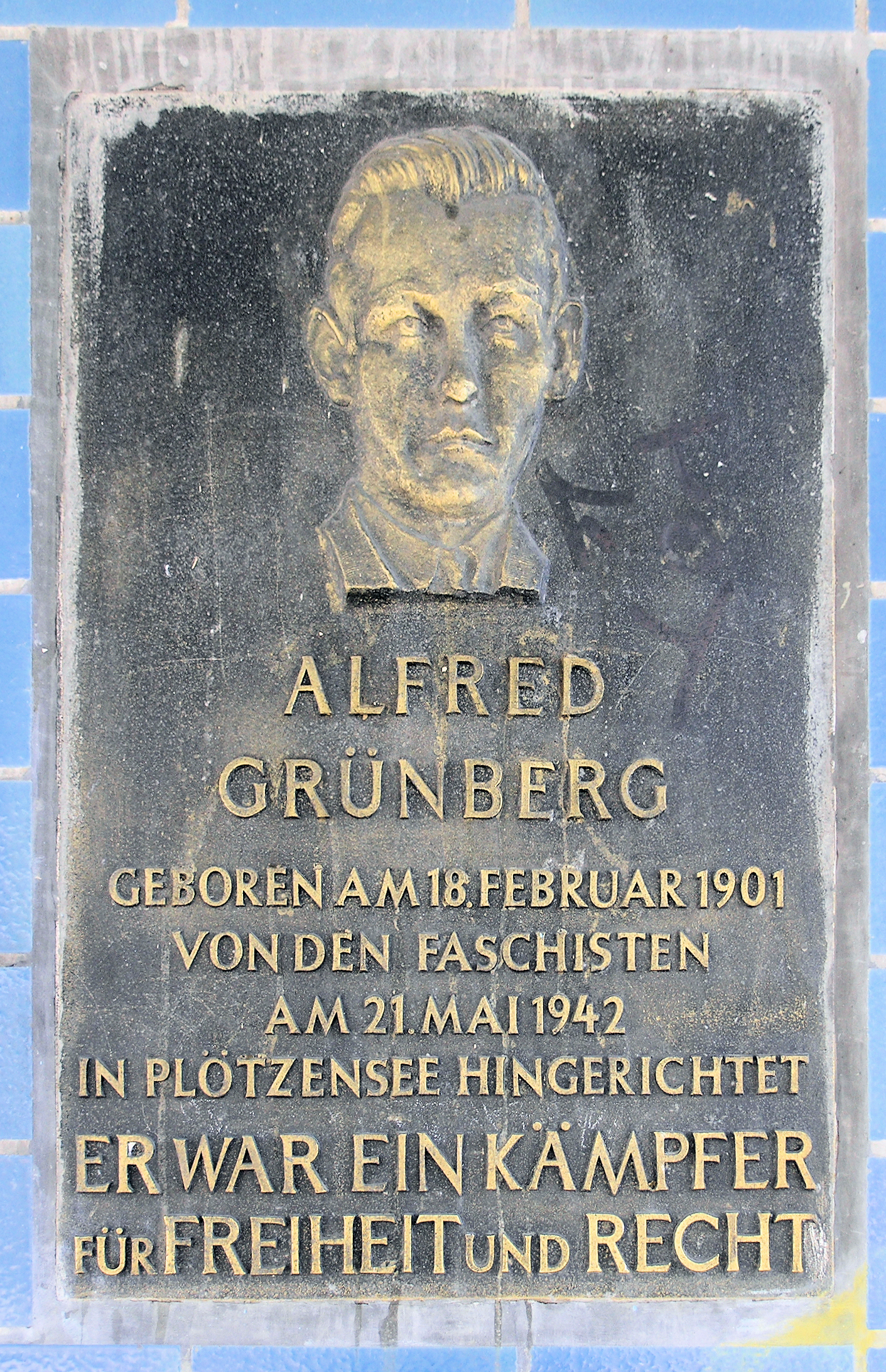 Memorial plaque, Alfred Grünberg, Schwalbenweg, Berlin-Altglienicke, Germany